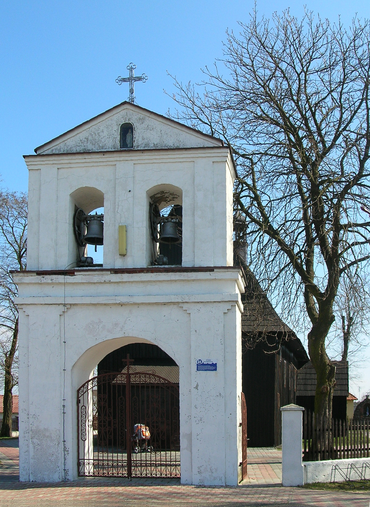 Bell tower of the St. Anne's church in Stary Ochędzyn